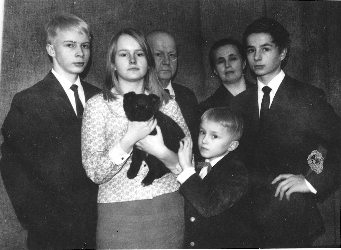 Family owners of Pax Inn Rauhala in a group photo 1965